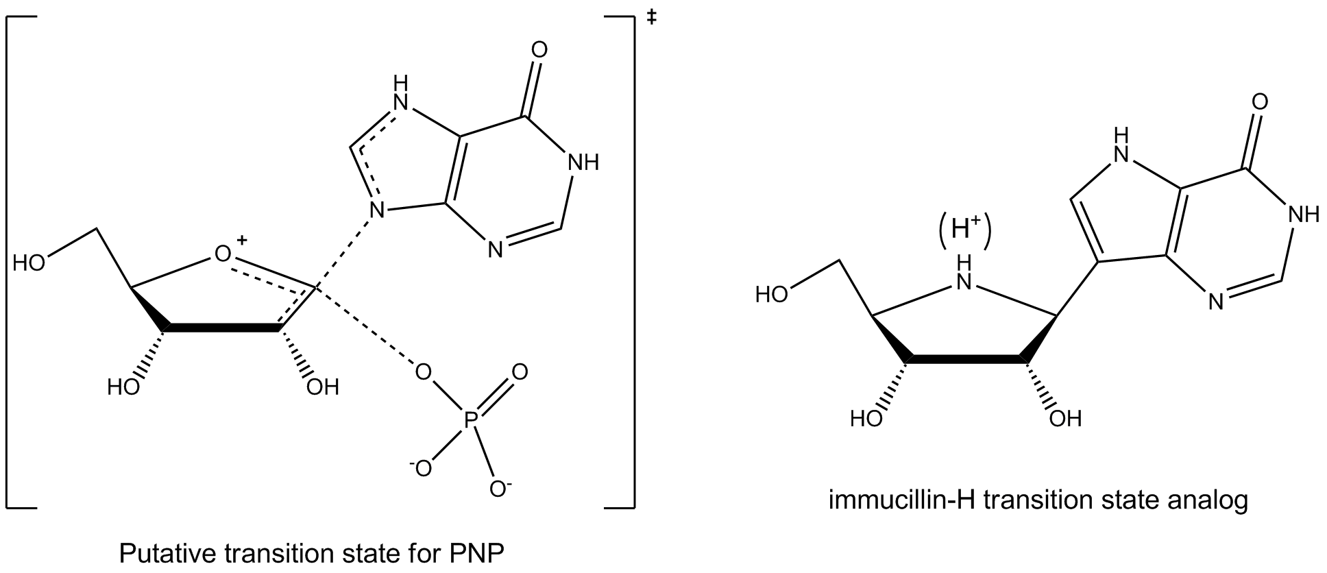 PNP putative transition state and transition state analog ImmucilinH